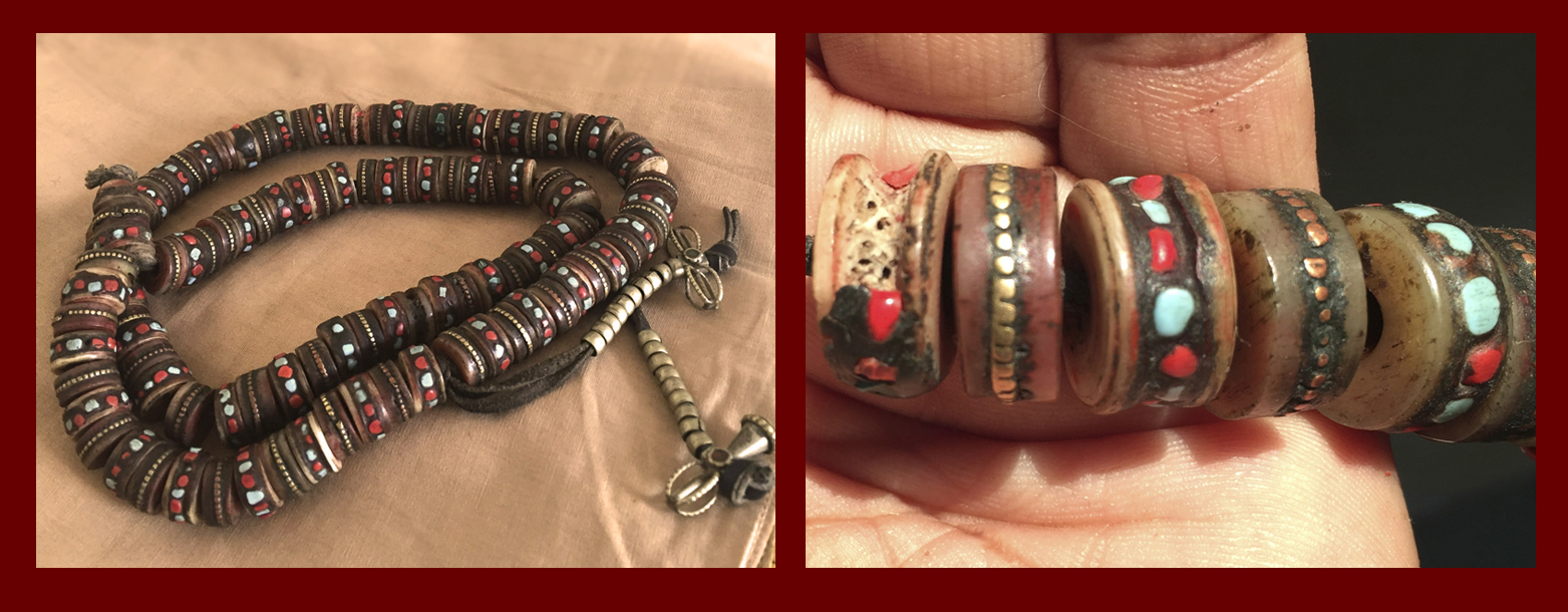 Kapala Mala, 18th-19th century, Tibet, made of Kapala bone. Courtesy of The Wovensouls Collection